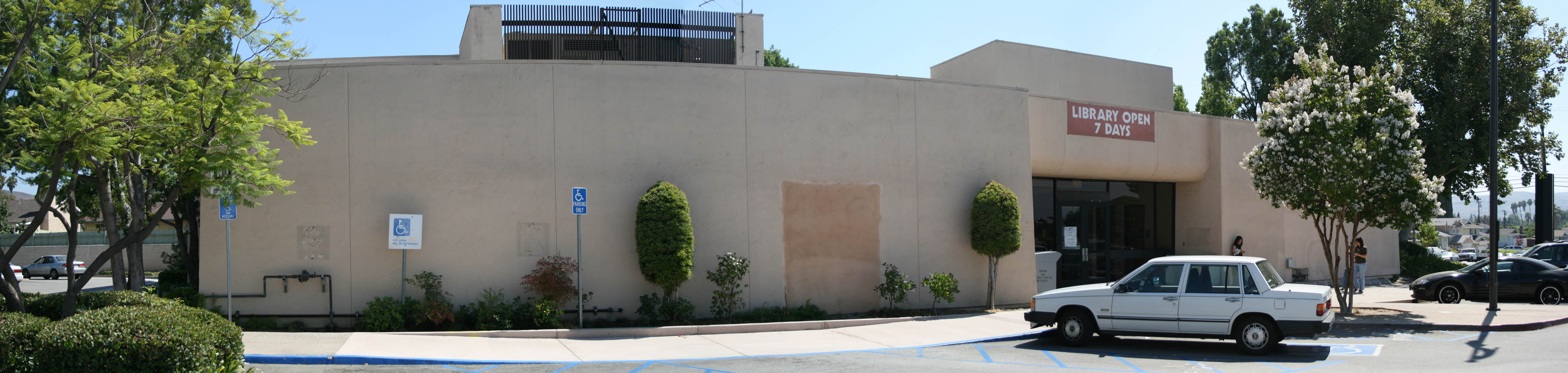 Rowland Heights Library - County of Los Angeles Public Library - 1850 Nogales St. Rowland Heights, CA 91748